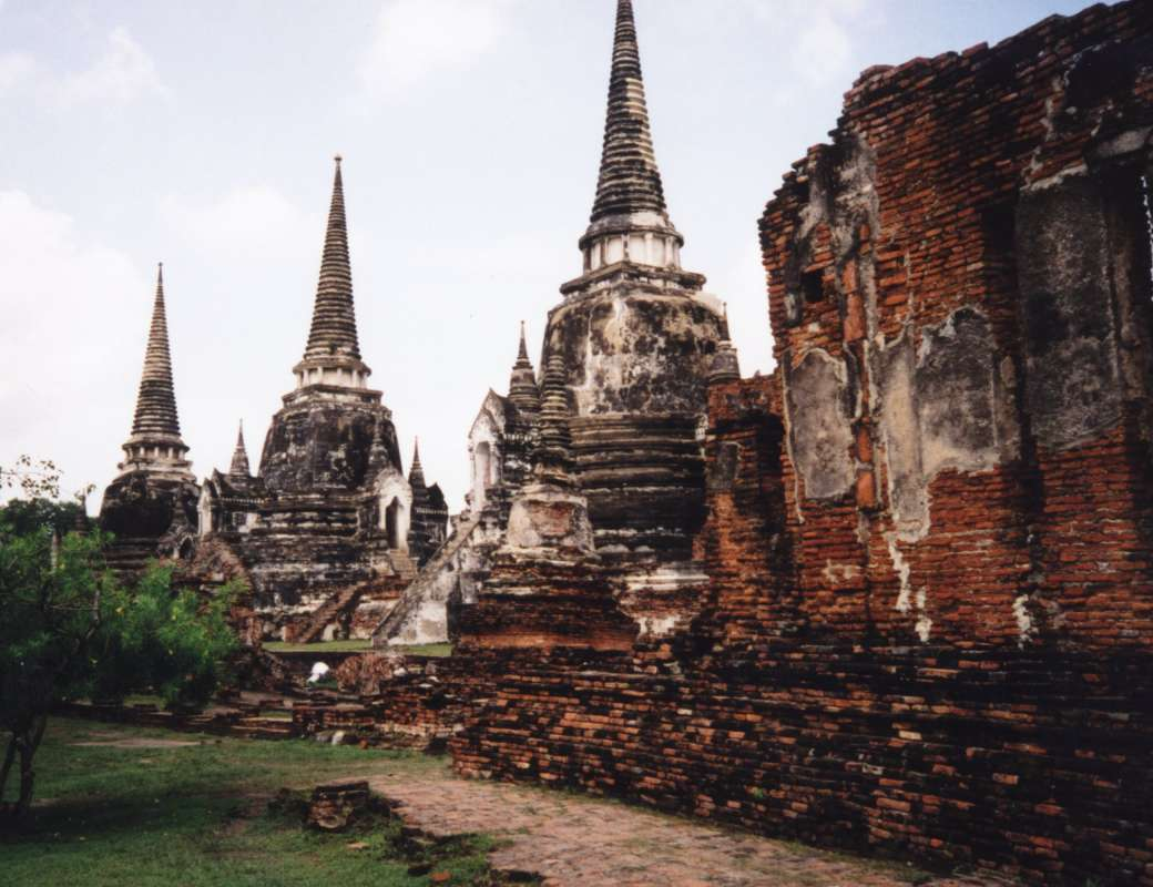 The three pagodas of Wat Phra Si Sanphet in Ayutthaya historical park, Ayutthaya, Thailand. Originally two pagodas were built by King Ramathibodi II to house the remains of his father King Borommatrailokanat and his brother King Borommarachathirat III. After the death of King Ramathibodi II a third was built on order of King Borommarachanophuttangkun to house the remains of Ramathibodi II. Photo taken by User:Ahoerstemeier on October 27 2000.